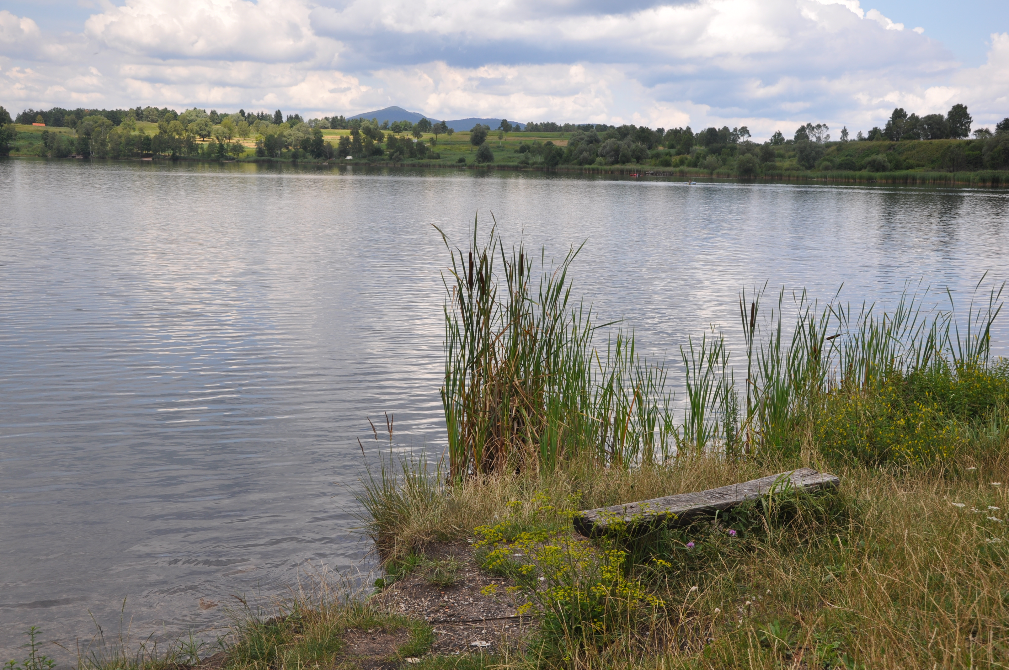 Kočevja lake, Slovenia